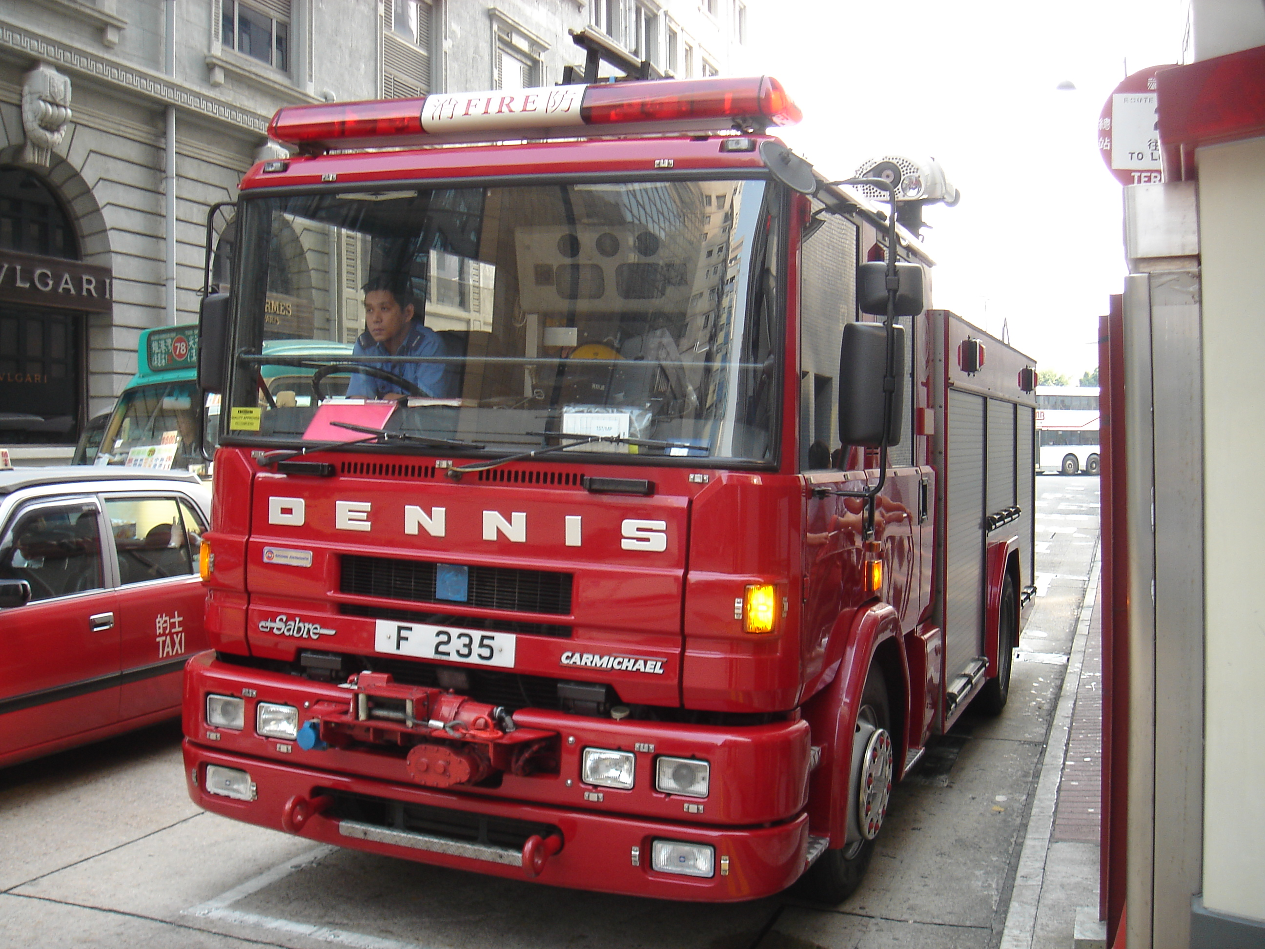 Dennis Sabre fire engine in the Fire Services Department, Hong Kong. The background is The Peninsula hotel, an urban taxi and a minibus. The right hand side of the picture is a sign of a bus terminus of the KMB.